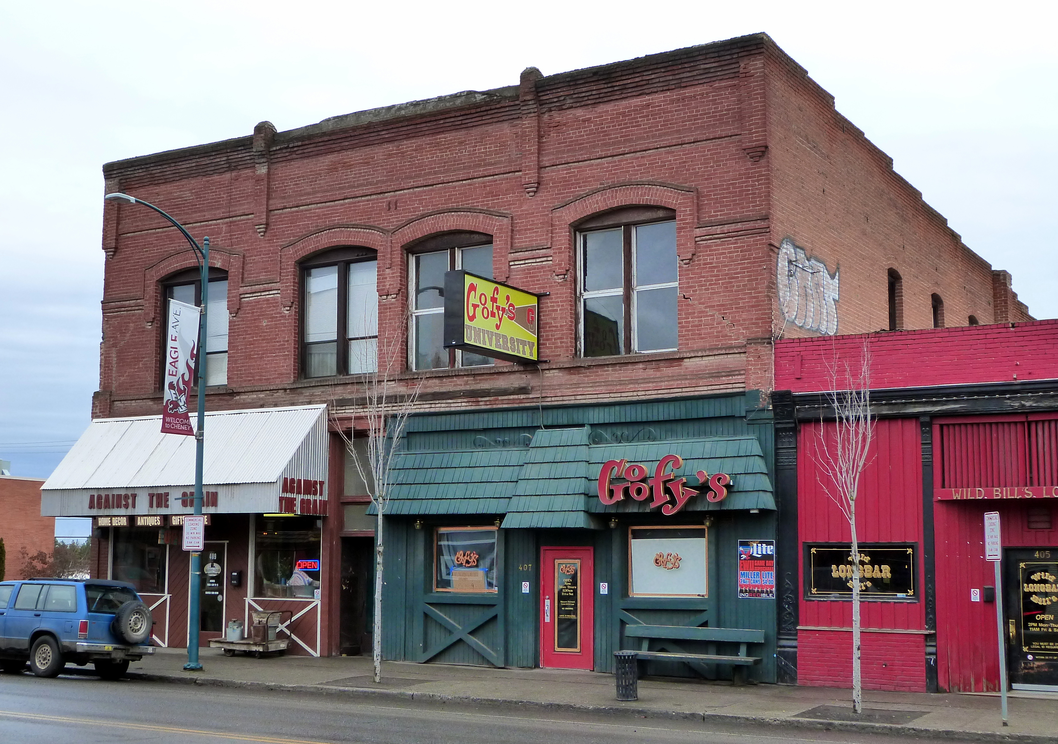 The historic Dr. Pomeroy Building (built 1890), located at 407–411 1st Street in Cheney, Washington, United States, is listed as a contributing resource in the City of Cheney Historic District. The district is listed on the US National Register of Historic Places.